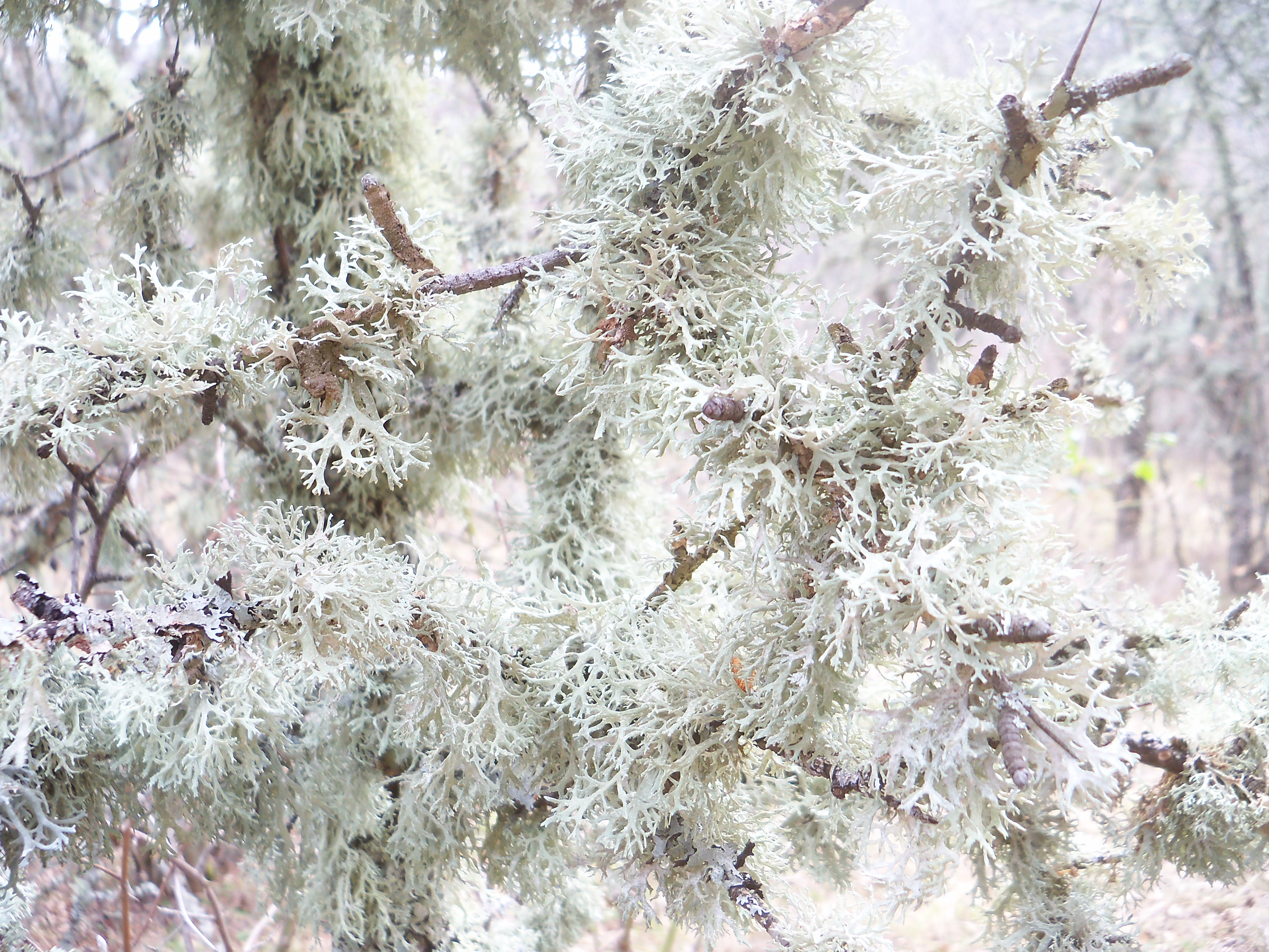 A lichen (possibly, Evernia prunastri)